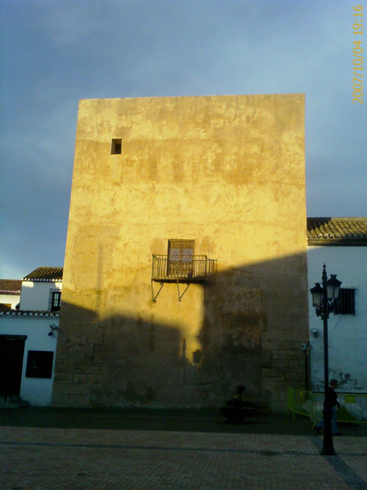 Shown Building is a moorish Tower in Las Gabias, Granada, Spain